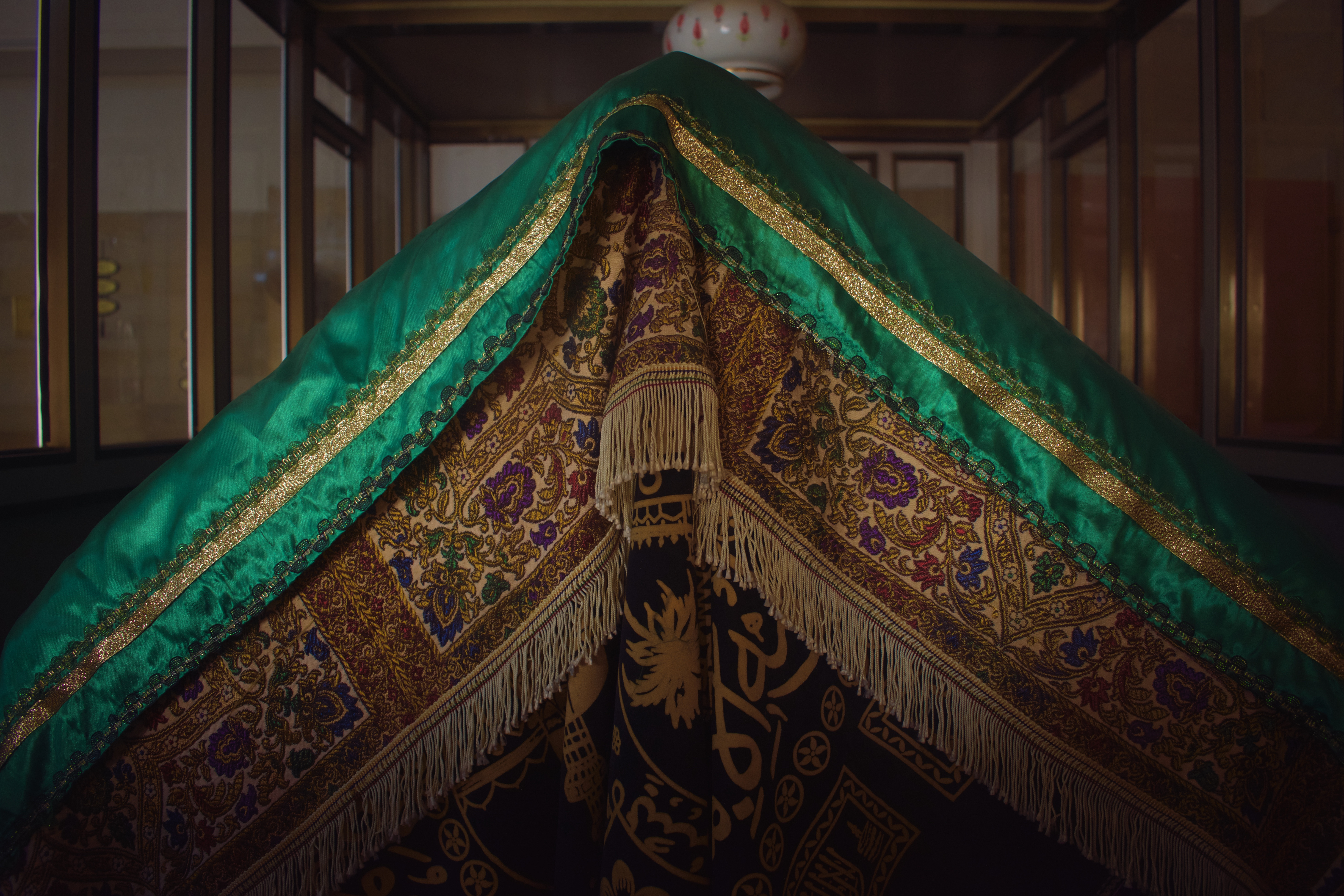 Shrine of Sultan Muzaffar ad-Din Gökböri in Erbil, the capital of the Kurdistan Regional Government in Iraq